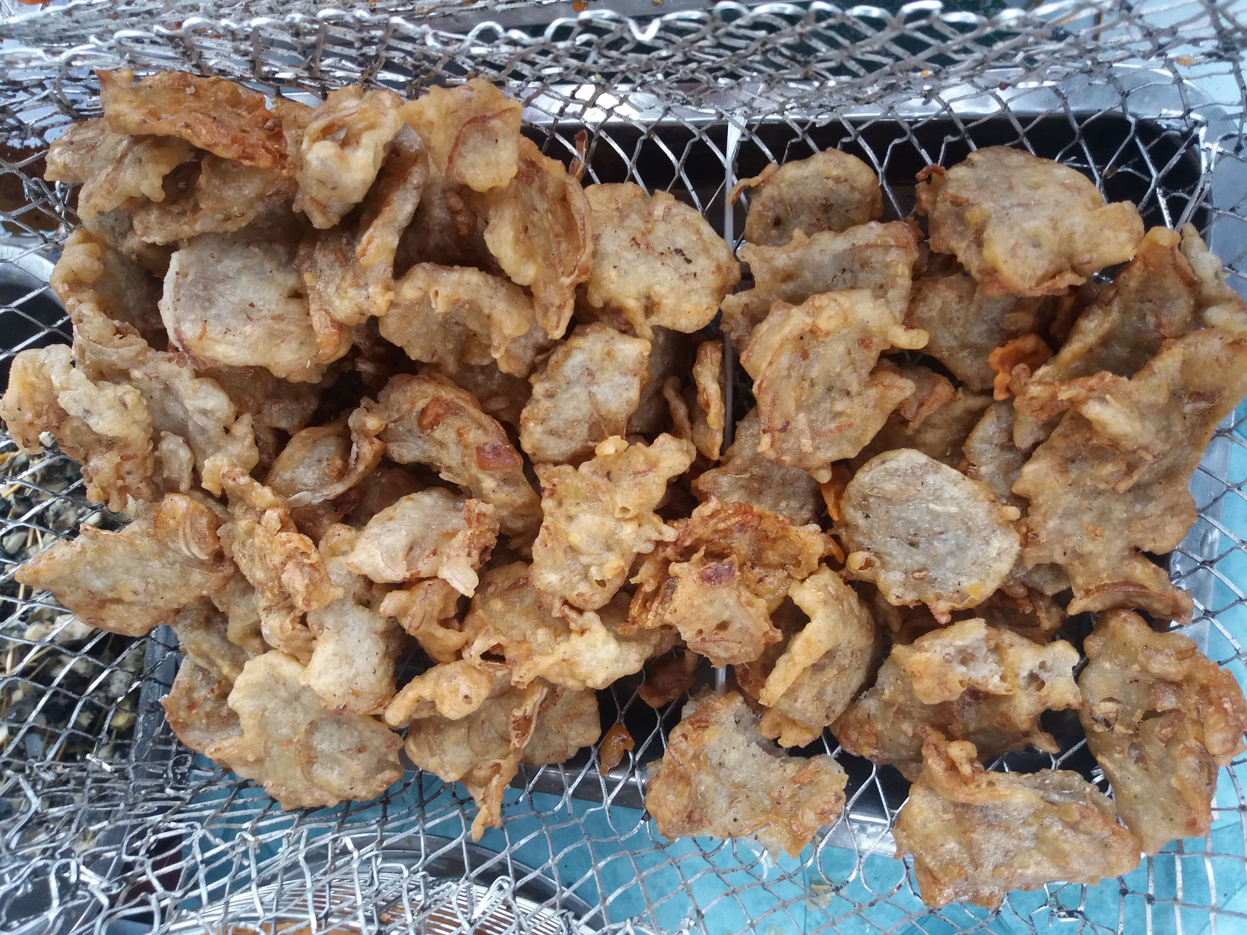 Okoy (fritters) made from banana flowers